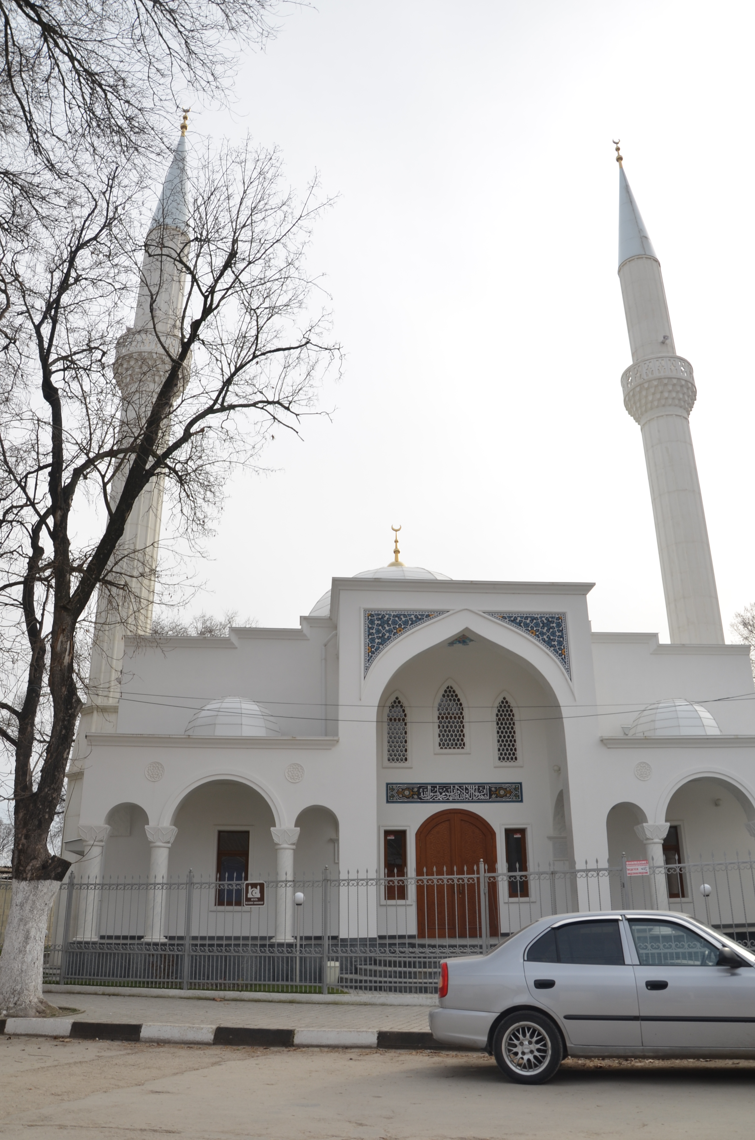 Cathedral mosque in Belogorsk (Crimea)